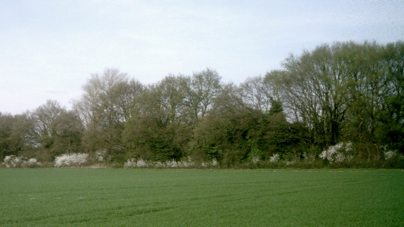 Earthen fortification grown by trees ("Landwehr") near Hoser, Viersen, Germany